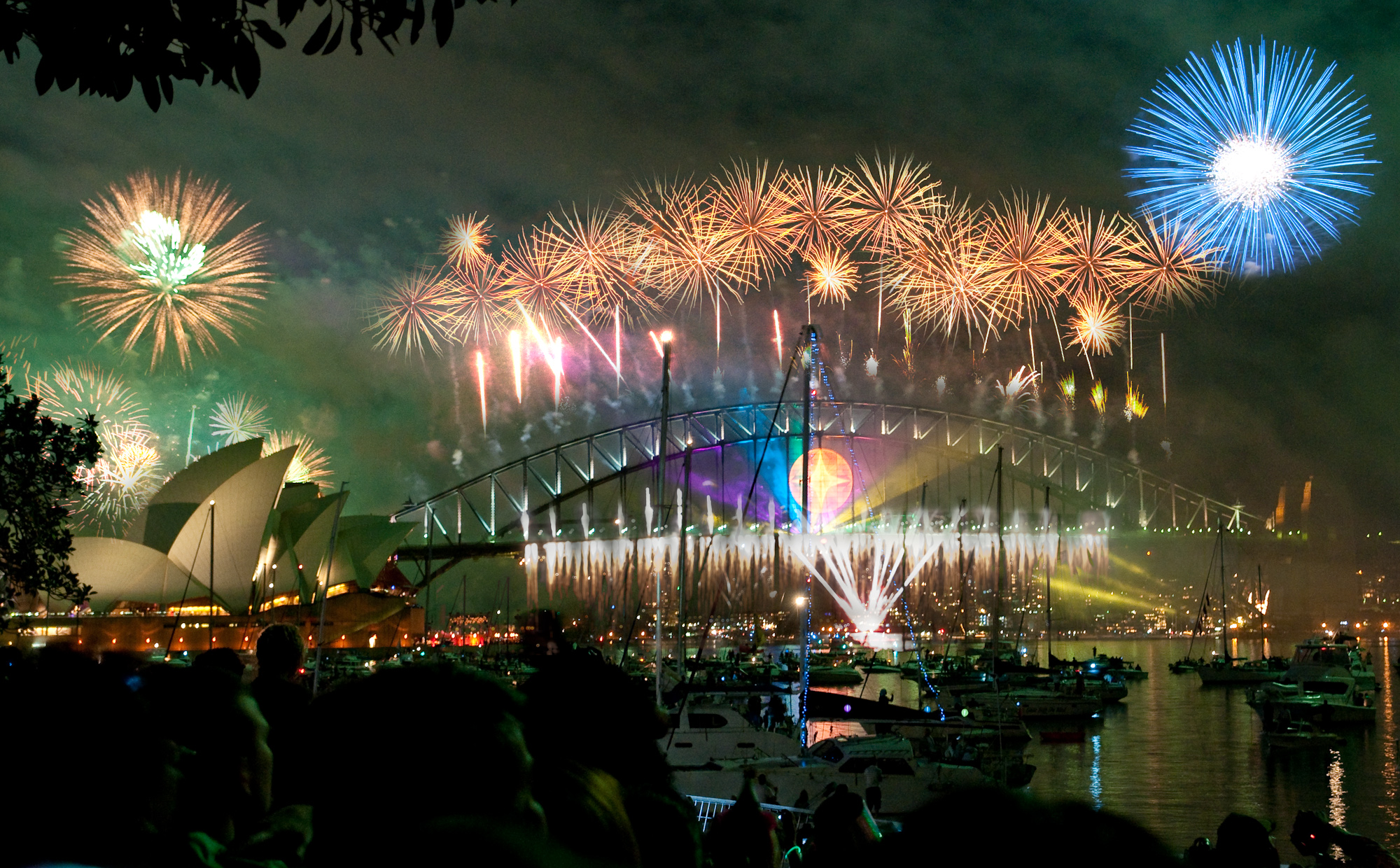 Sydney Harbour Bridge & Opera House fireworks - New Year's 2008